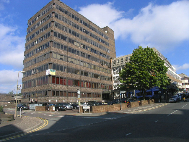 "Sugar Tower", Brentwood, Essex. Located in Kings Road, this is the headquarters of Sir Alan Sugar's company - Amstrad.